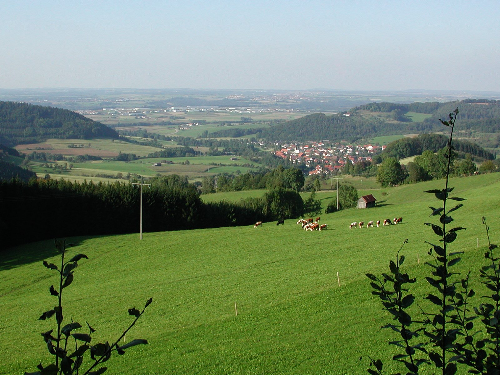 View from Furtlepass, Germany, to NW